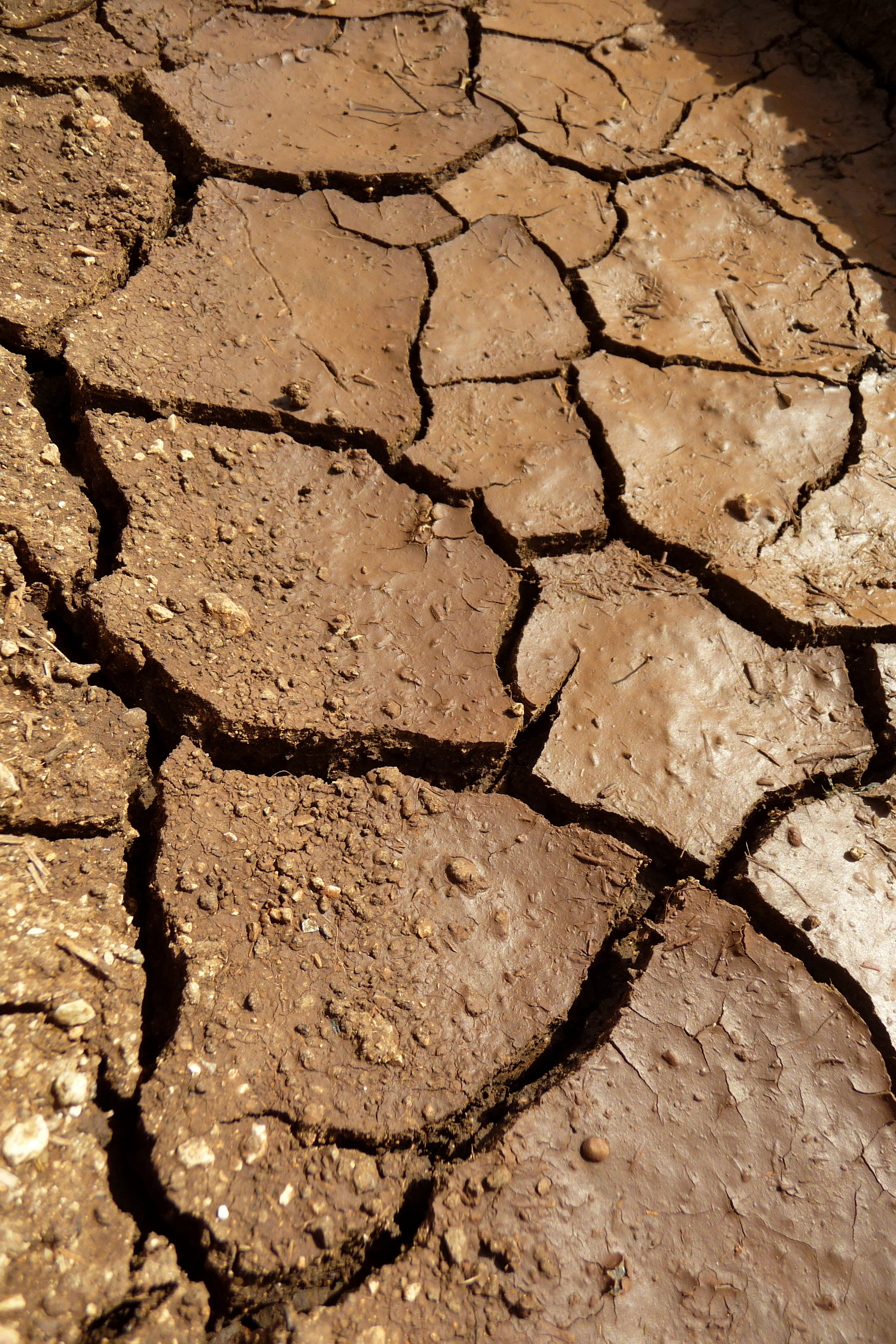 Carmel Park